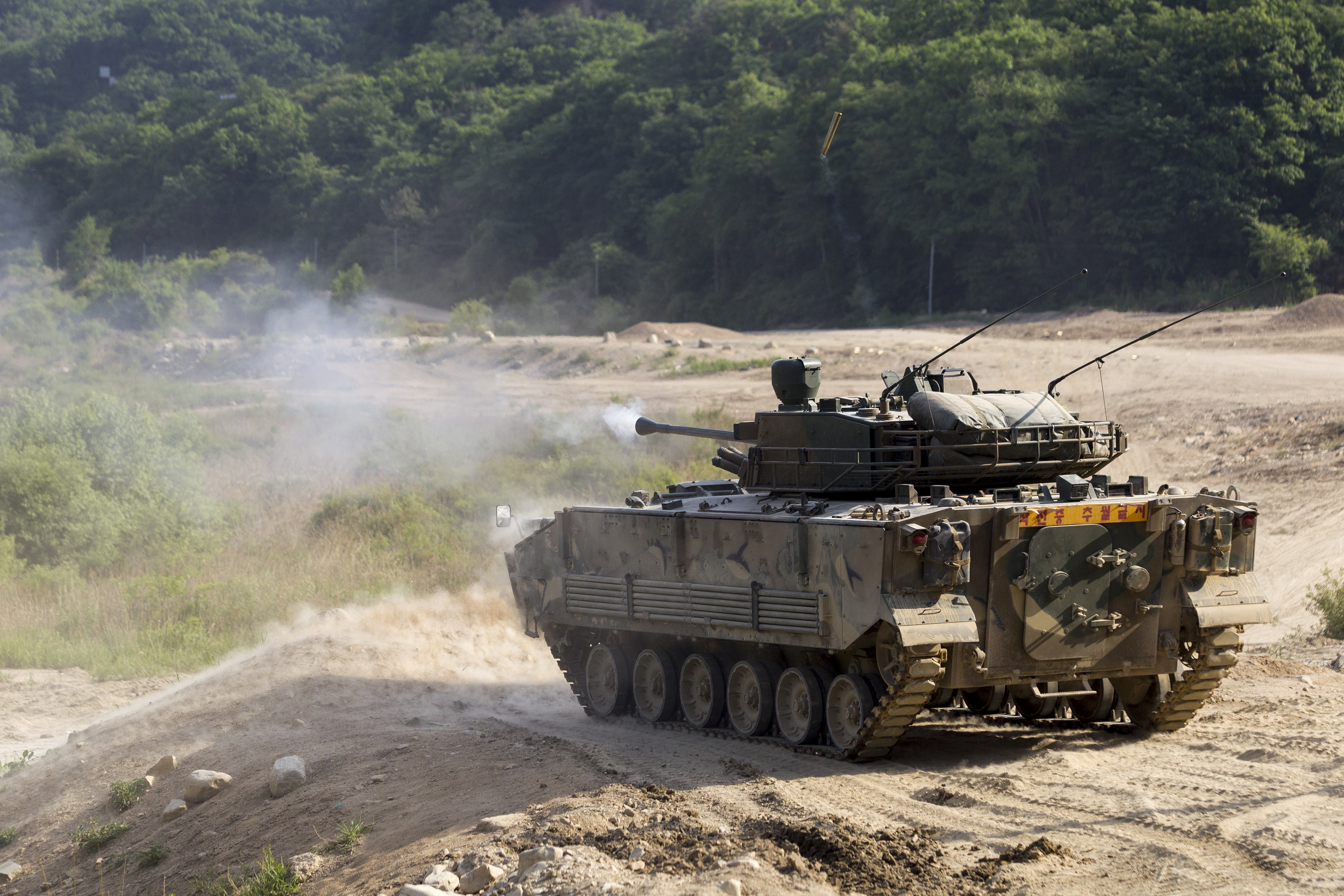 2014.5.20 육군 수도기계화보병사단 K-21 장갑차 전투사격훈련 K-21 combat firing practice, Republic of Korea Army Capital Mechanized Infantry Division